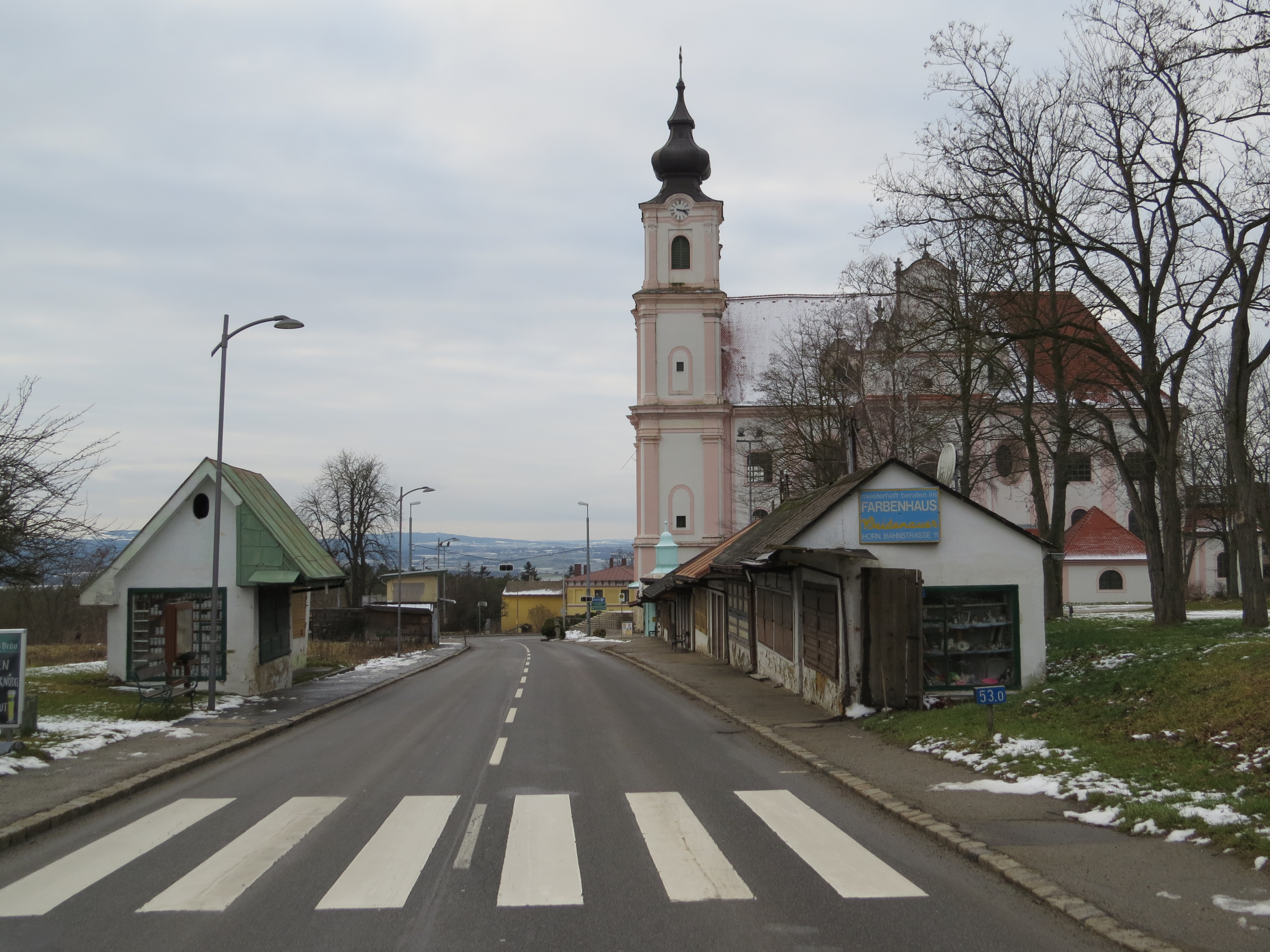 Waldviertler Straße at Maria Dreieichen